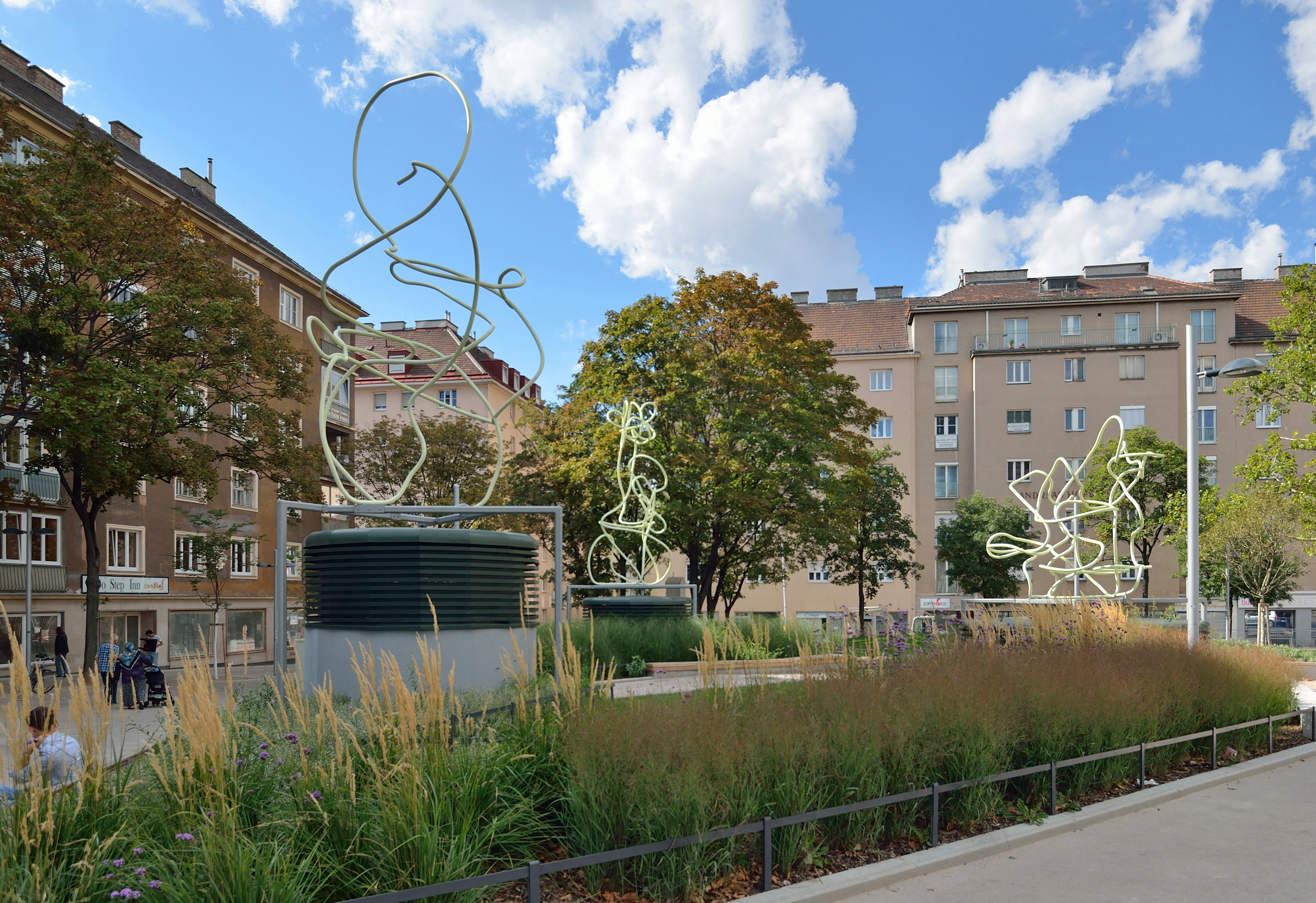 Primary Route and Byways by Michael Sailstorfer, 2016, Installation for KÖR at the Südtirolerplatz, Wieden, Vienna.